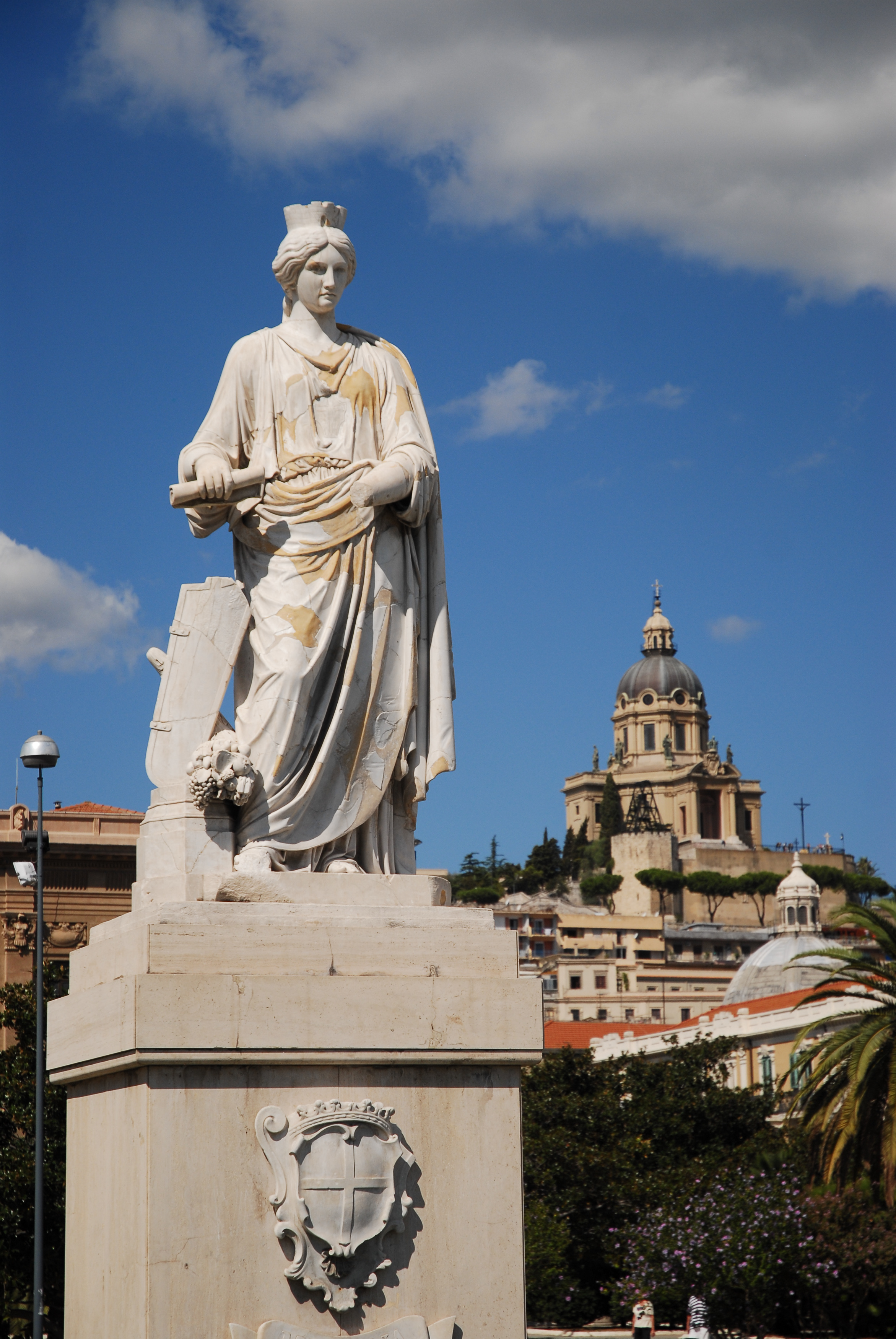 The Statue of Messina (Dedicated to Ferdinand II of Bourbon, by sculptor G. Prinzi). Messina, Island of Sicily, Italy, Southern Europe.